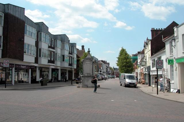 Petersfield High Street. View from the bottom of the High Street at the junction with Dragon Street and College Street.